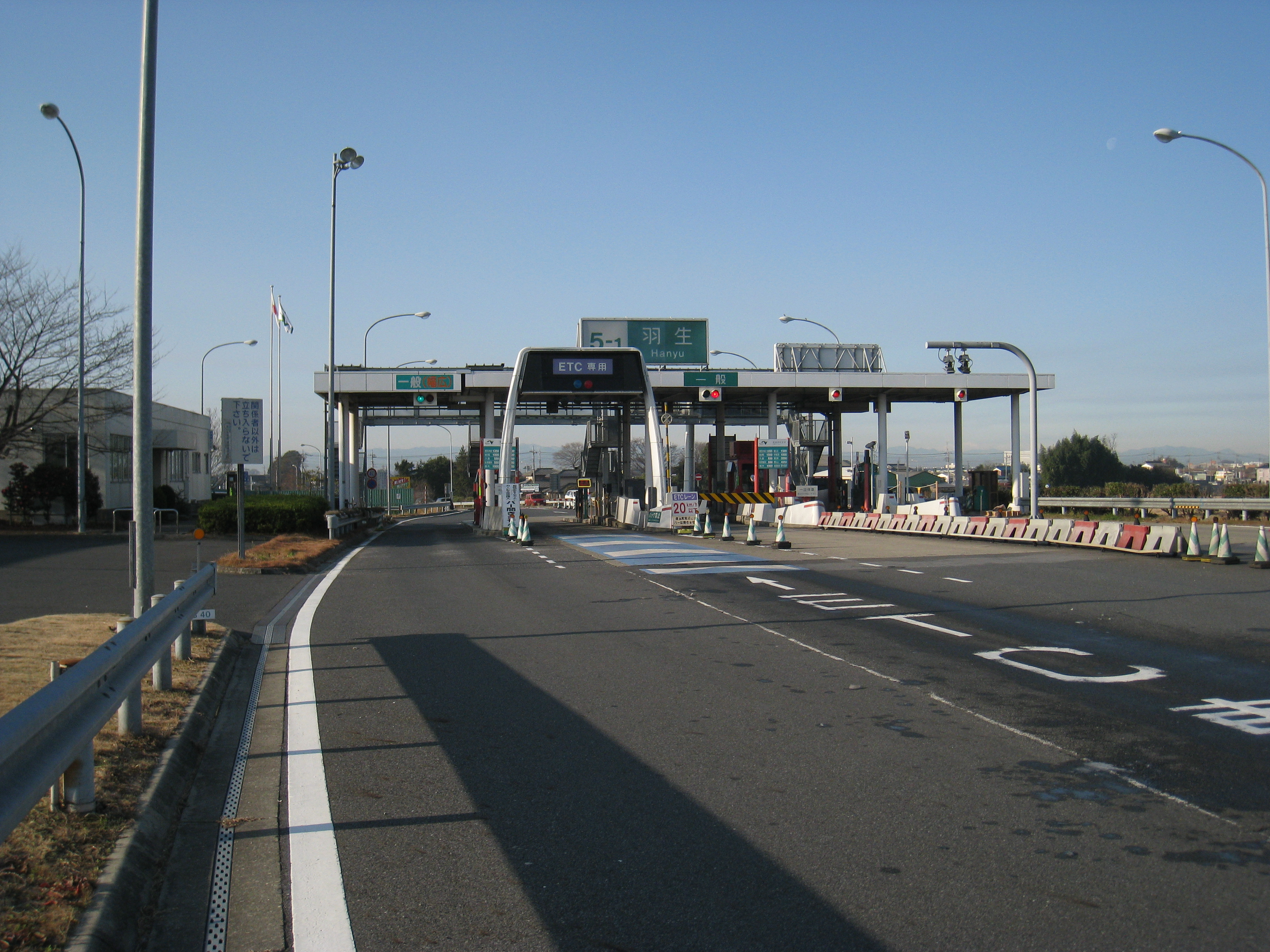 Hanyu Interchange